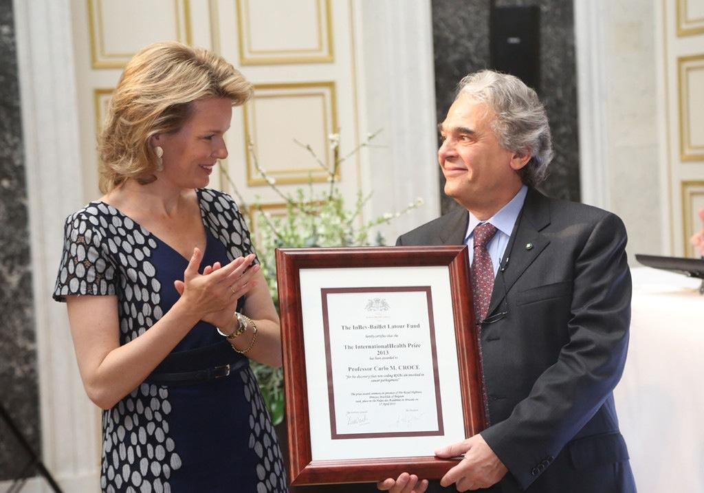 Carlo M Croce receiving the InBev-Baillet Latour Prize for Outstanding Human Value in the Arts and Sciences from Her Majesty Queen Mathilde of Belgium in 2013